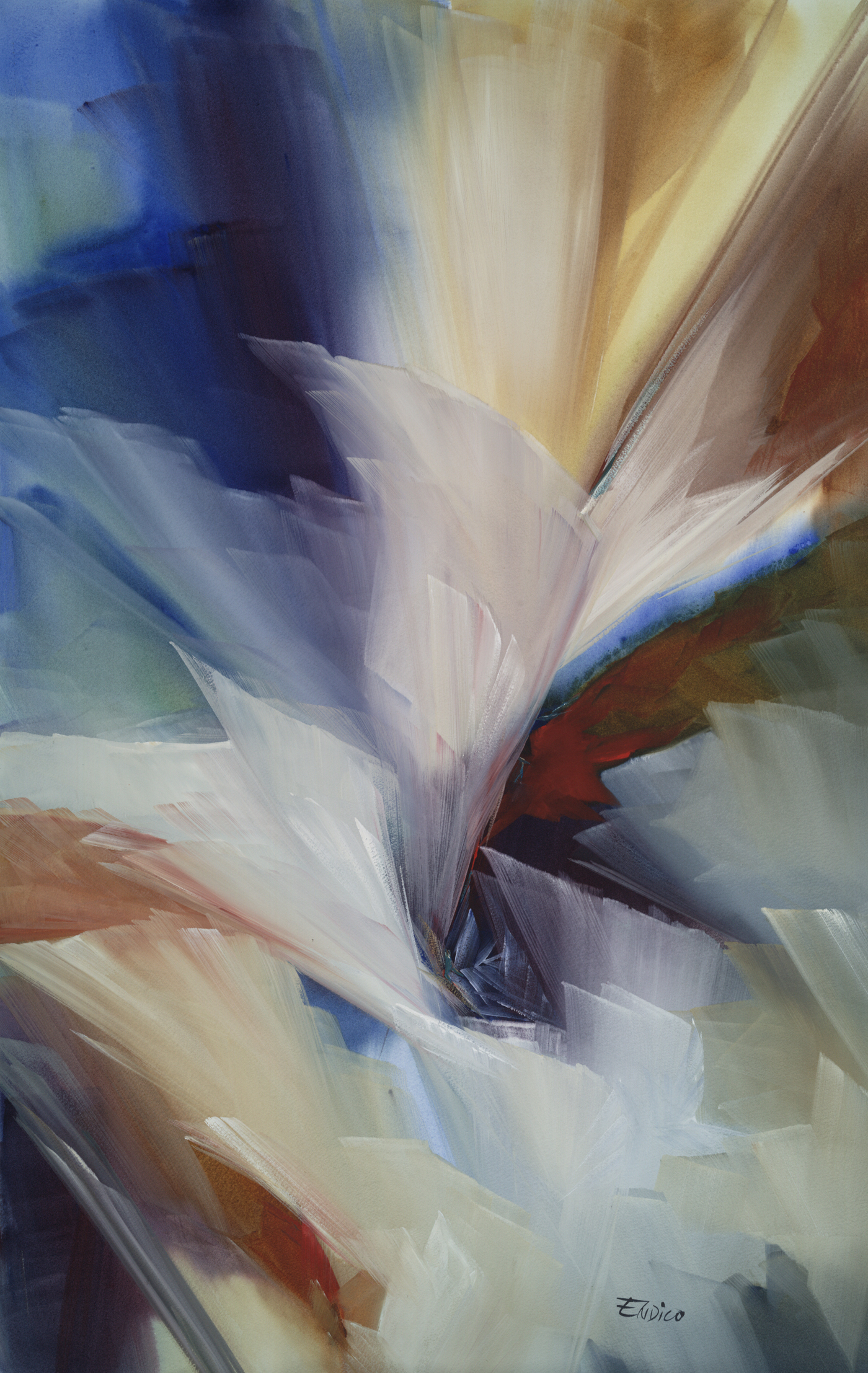 This is an example of a pure aqueous haute conduite watercolor painted by Mary Endico, Sugar Loaf, New York. The painting is #1005 from the authoritative database and can be viewed on the Endico Studio website along with more information about materials and process.